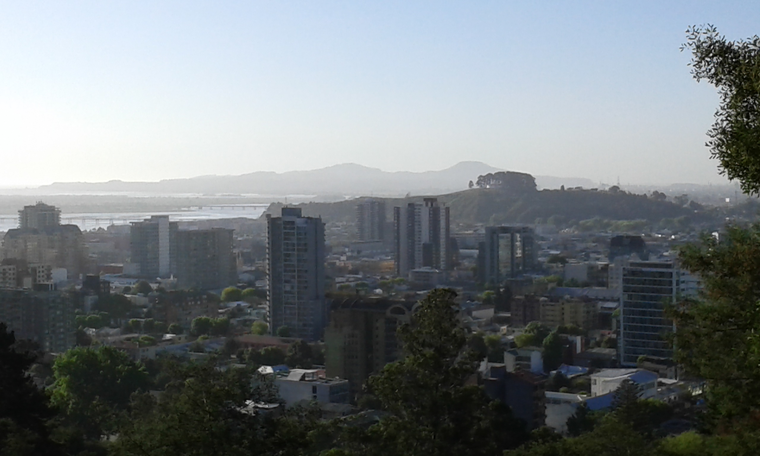 View of Center City Concepcion, Chile. Picture taken in the rise of Cerro Caracol.